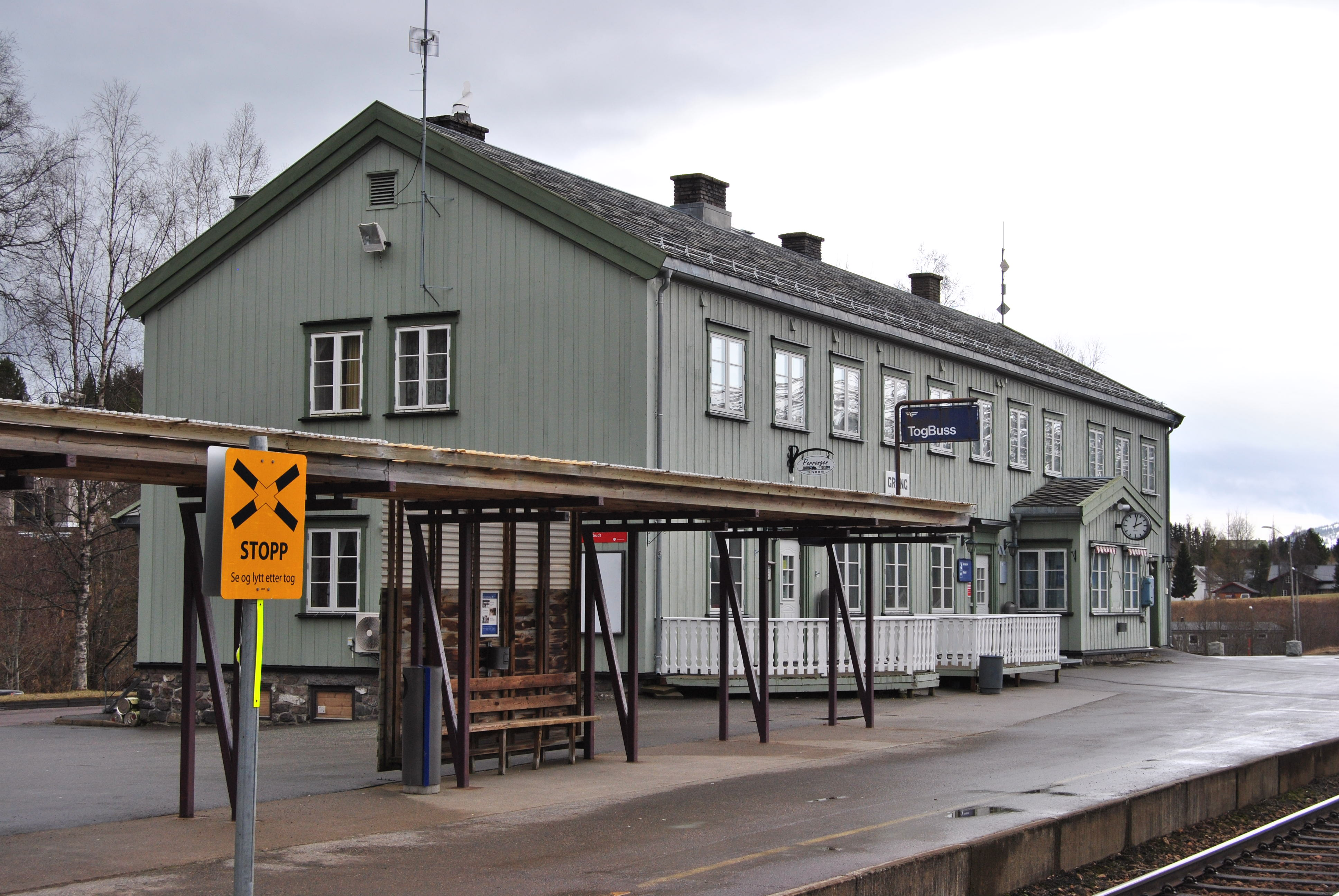 Grong Station on the Nordland Line in Grong, Norway